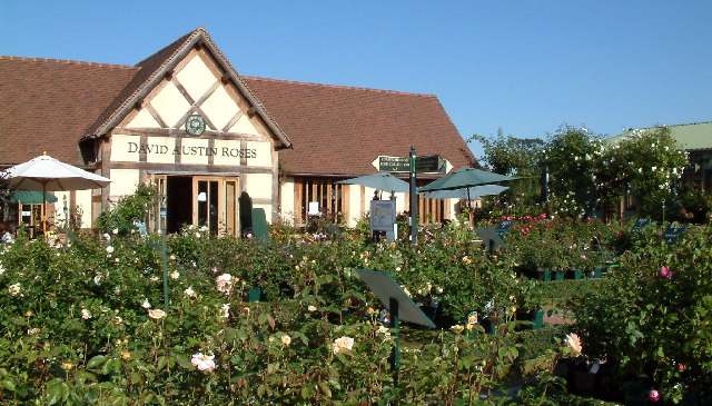 David Austin Roses Near Albrighton. Commercial Rose growing & breeding concern, recognised world wide, with superb gardens to delight the eye & nose!